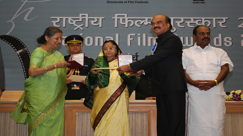 Akshay Parija Receiving National Film Awards